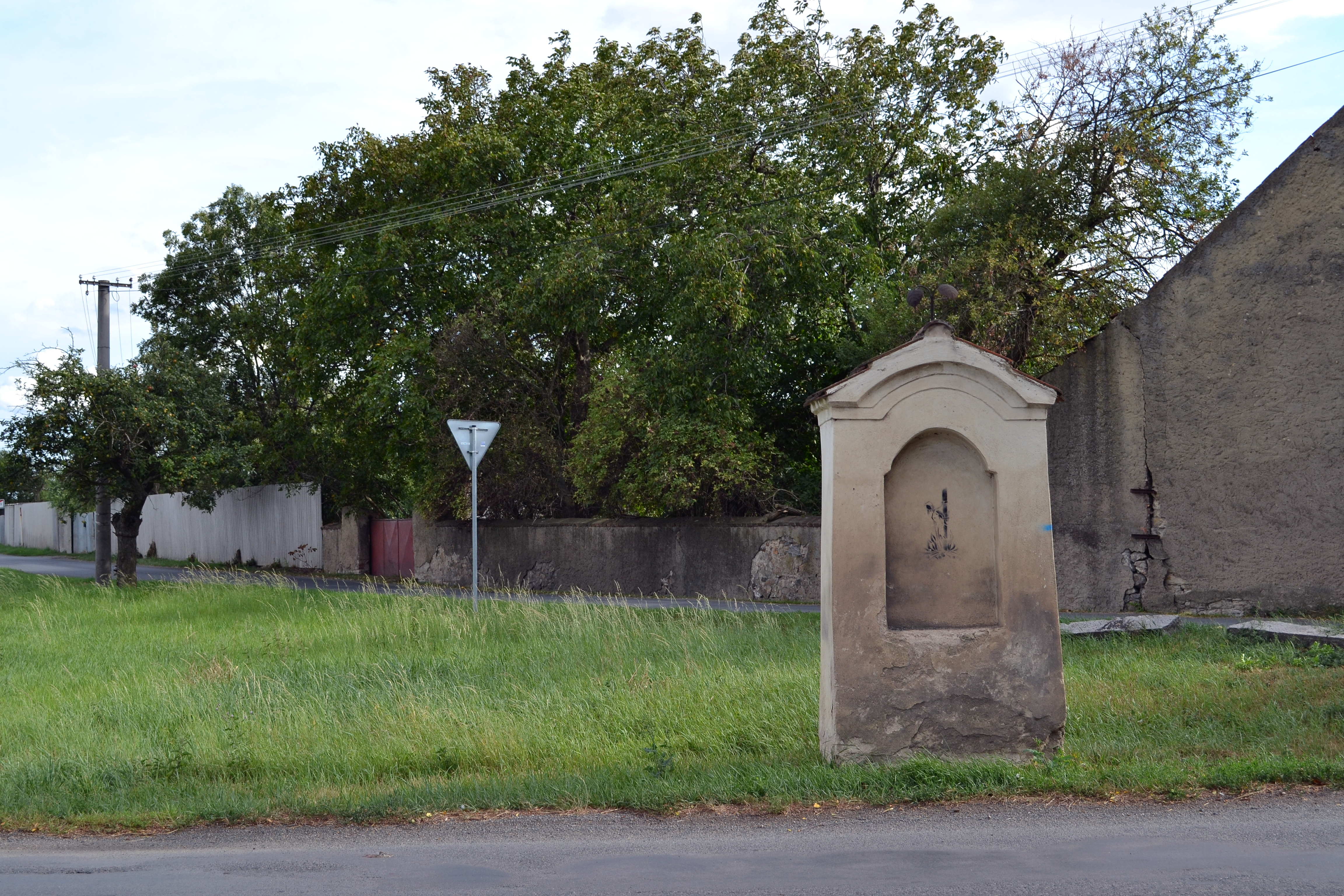 A wayside shrine in the village Lichoceves, Central Bohemian Region, Czech Republic.